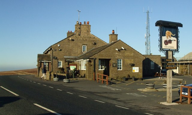 Cat & Fiddle Inn Taken at lunchtime on a bitterly cold Boxing Day 2008, The Cat & Fiddle Inn was certainly living up to its reputation as a popular venue for bikers, situated at the top of the A537 between Buxton and Macclesfield. At 1690' it is generally agreed to be the second highest inn in England after the Tan Hill Inn.